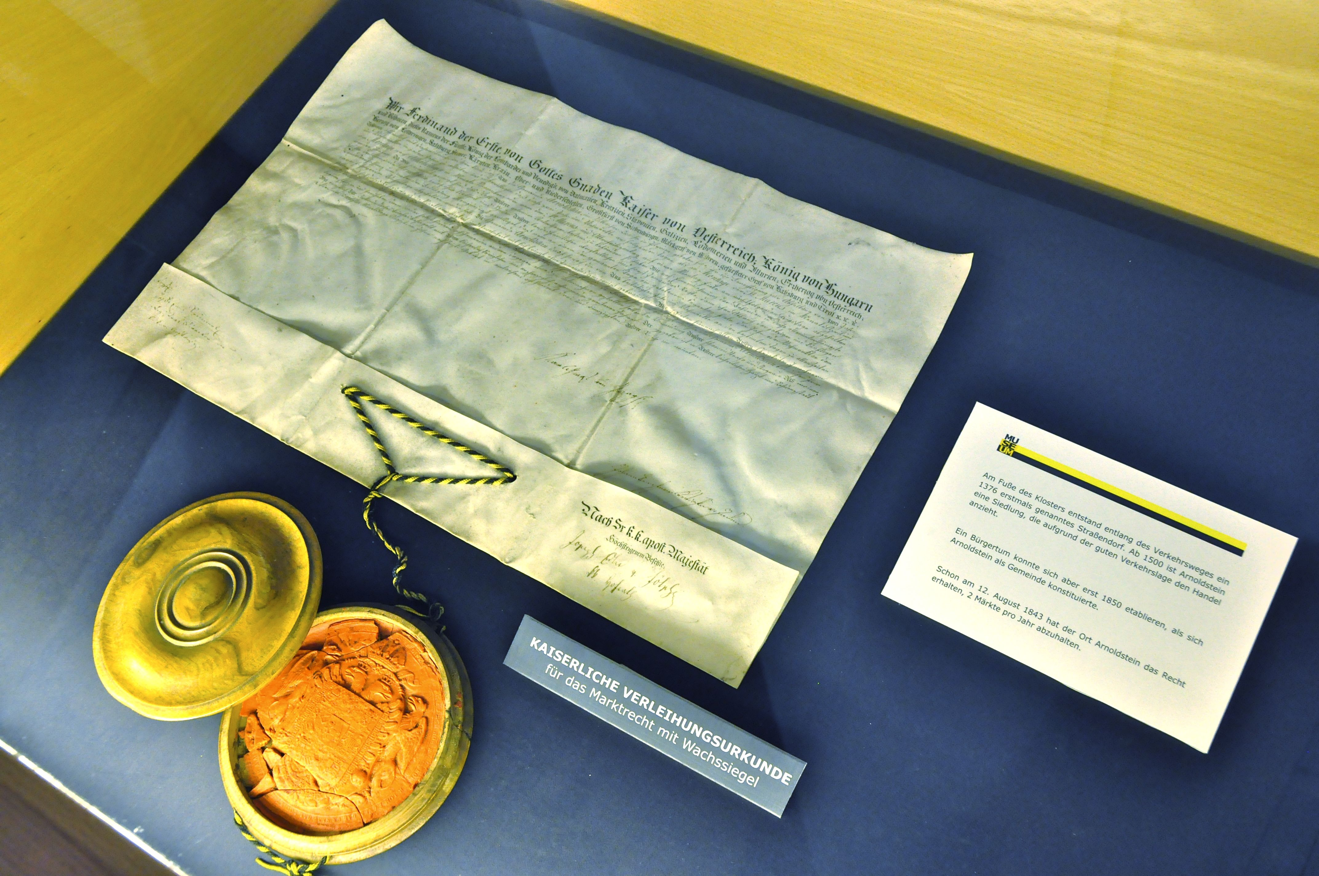 Concession of market rights by emperor Ferdinand I. in the museum on Klosterweg #2, market town Arnoldstein, district Villach Land, Carinthia, Austria, EU